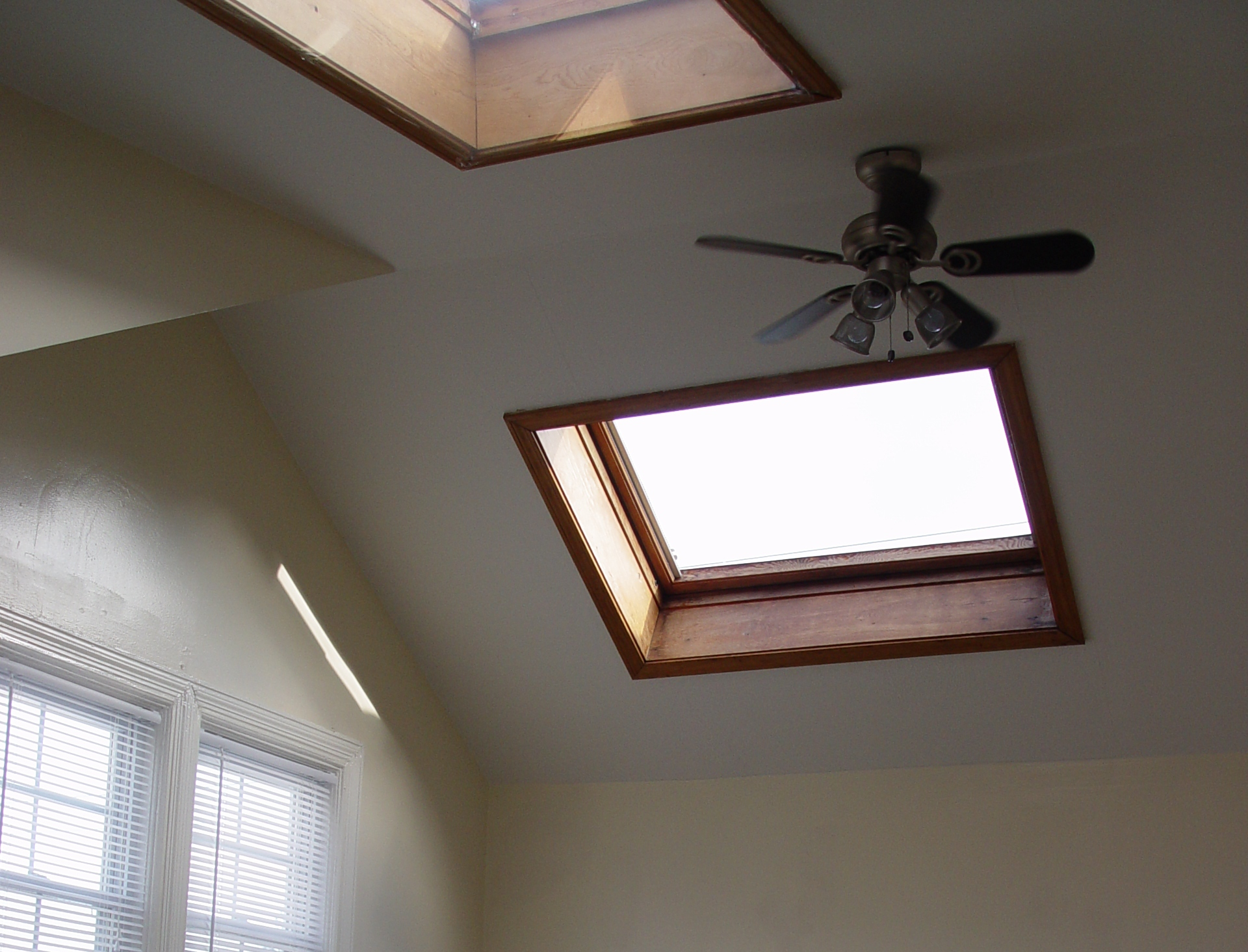 Velux GGL-7 Center-Pivot Roof Window, 1986 Model.jpg